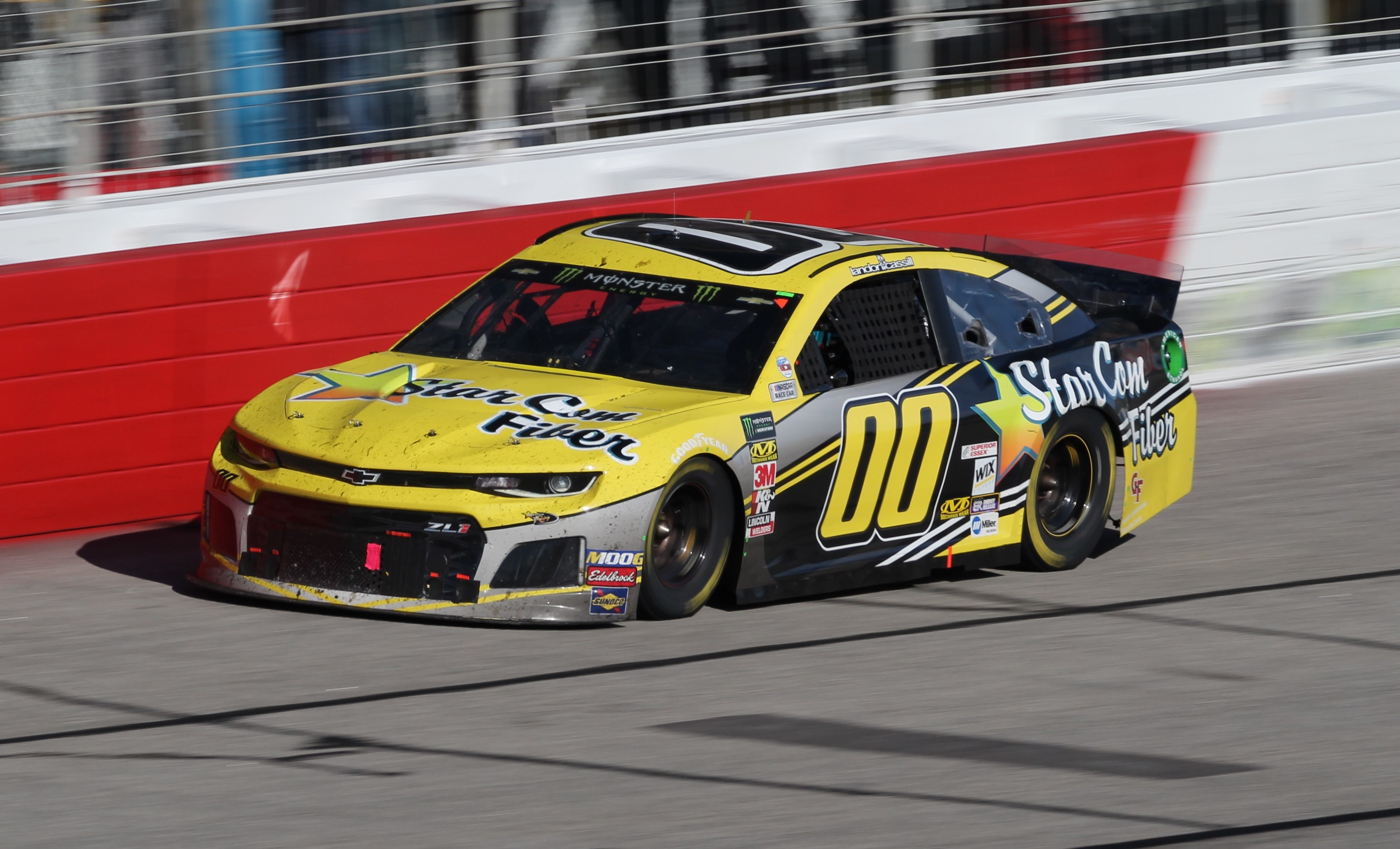 2019 Folds of Honor QuikTrip 500